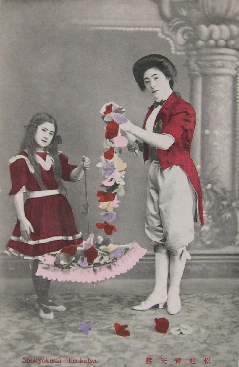 Shokyokusai Tenkatsu (1886-1944), a Japanese magician, with her assistant. 松旭斎天勝と助手の少女。